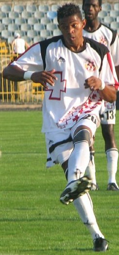 De Oliveira, forward of FC Volyn Lutsk